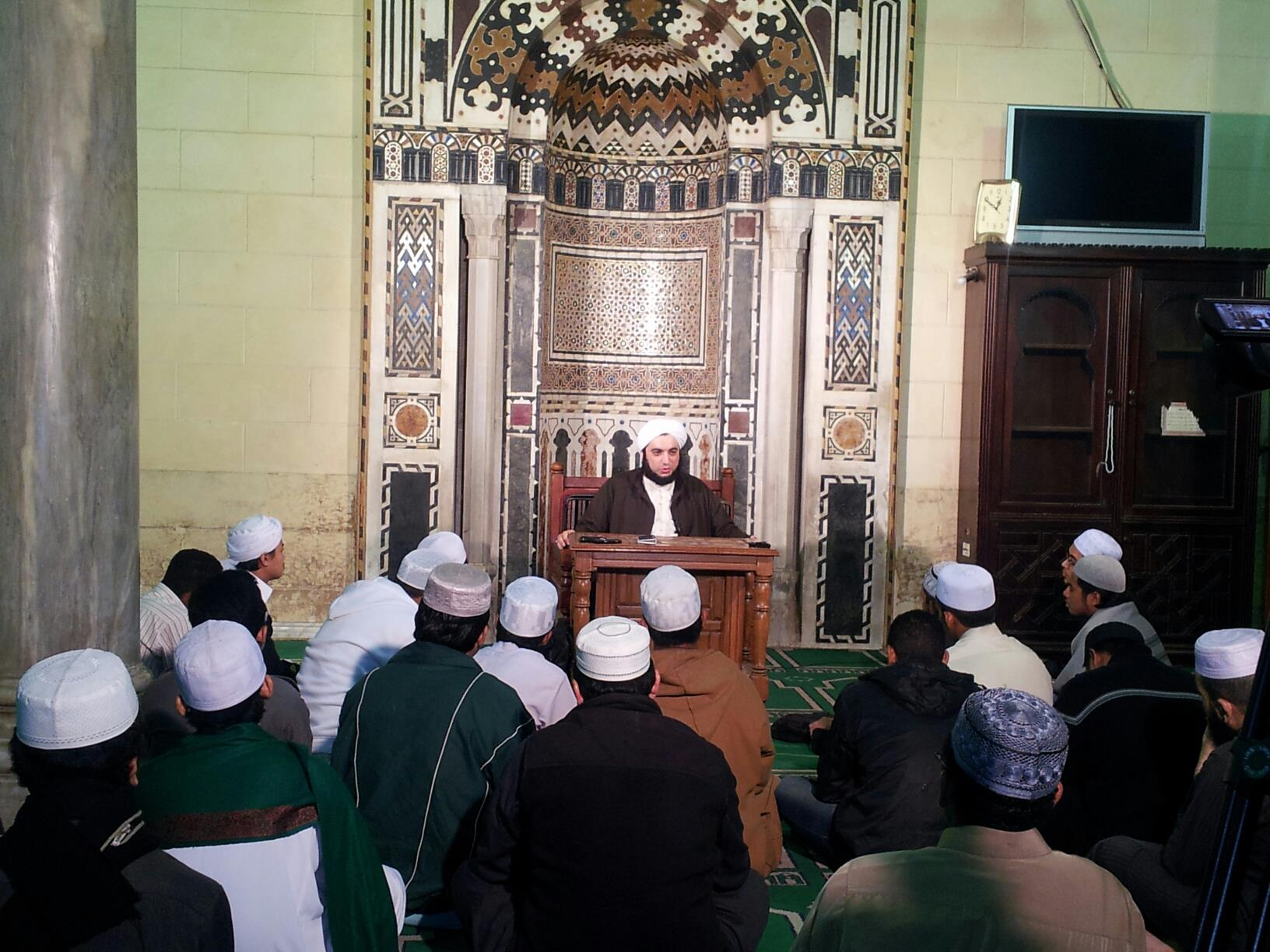 Awn Qaddoumi